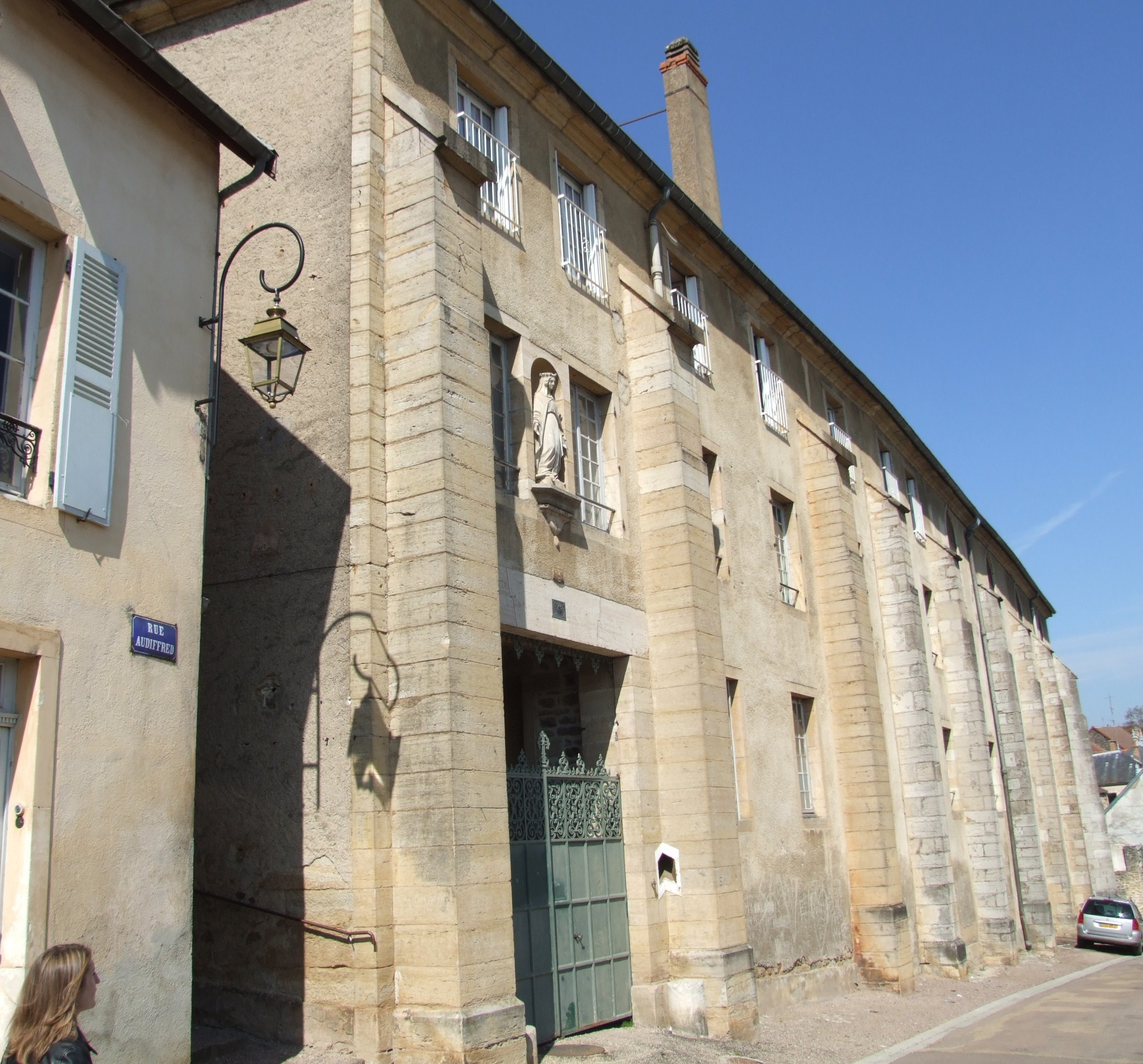 Vitteaux, Burgundy, FRANCE